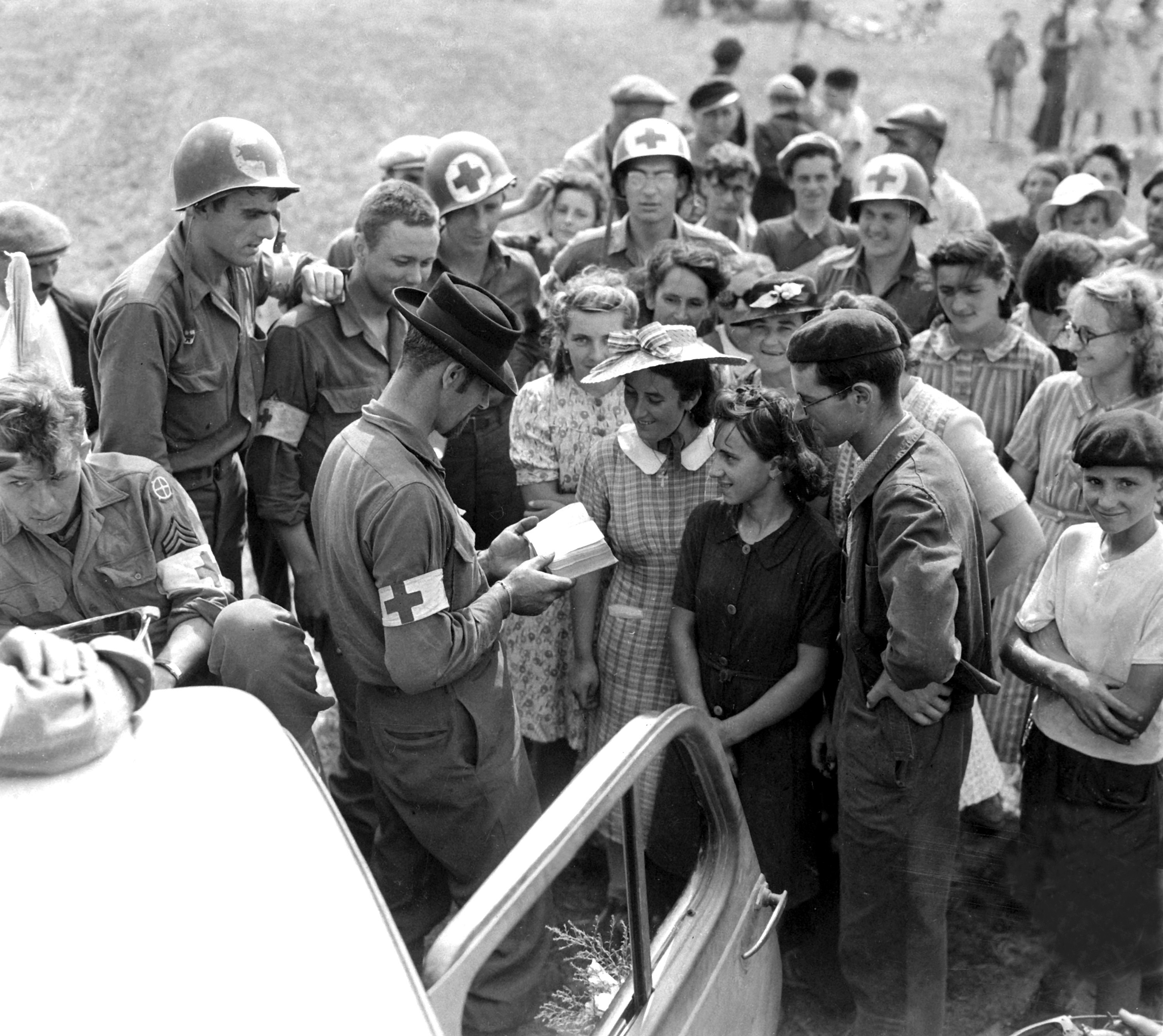 Wearing a civilian hat salvaged along the way, a bearded GI amuses both GI's and French civilians as he tries to make himself understood with the aid of a French dictionary in the town of Orleans, France.